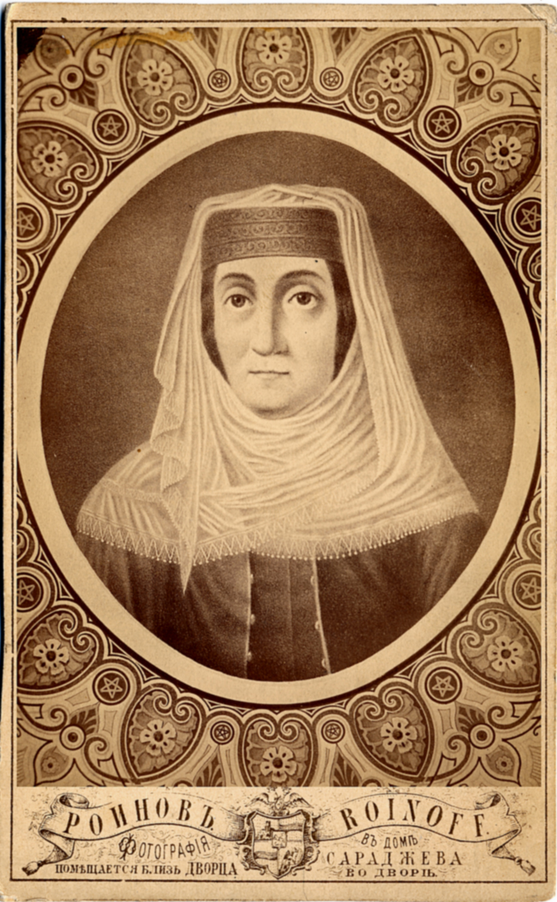 Mariam dedophali (Queen of Georgia)